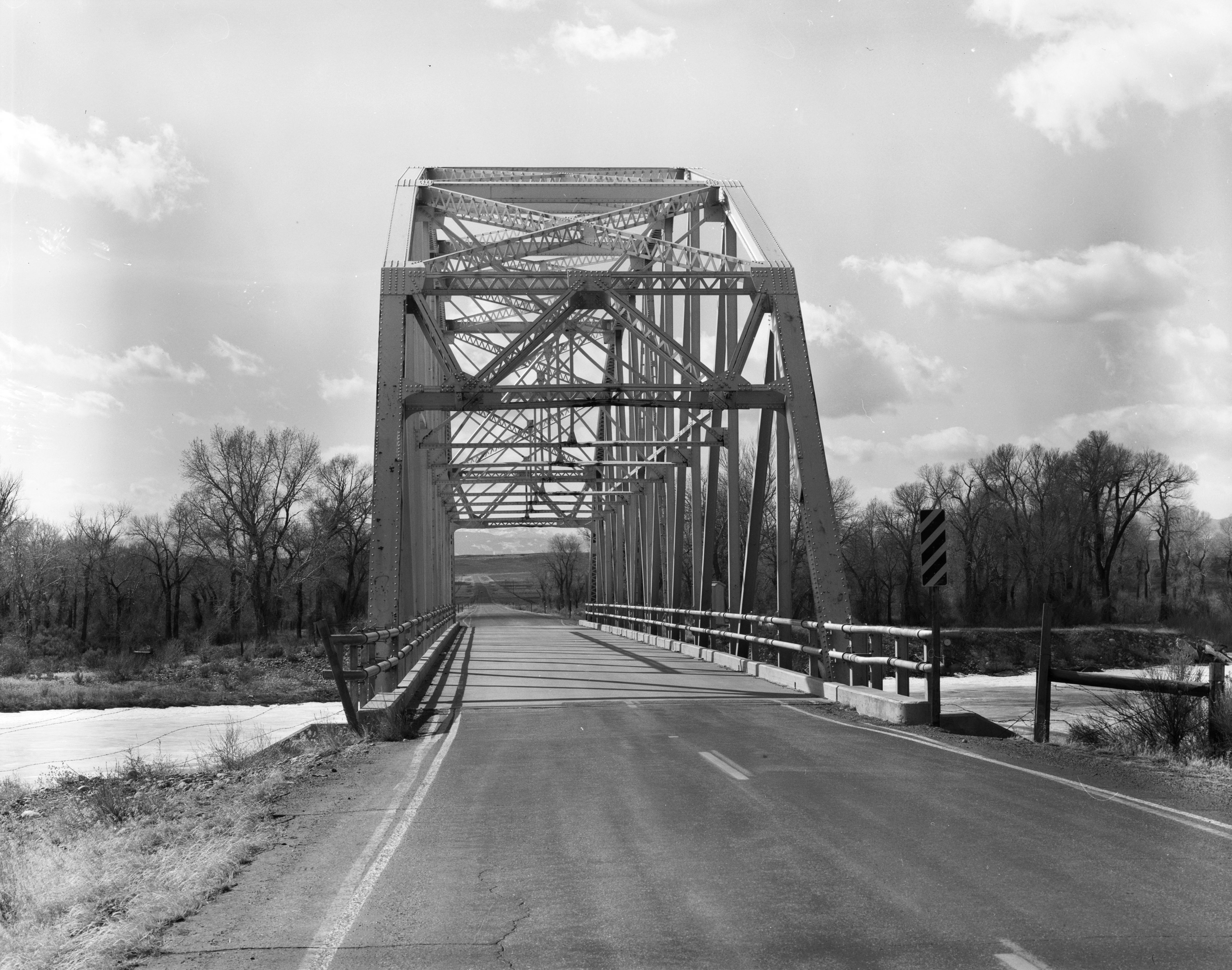 Southern end of the BMU Bridge over Wind River, which carries WYO 132 over the Wind River near Ethete in Fremont County, Wyoming, United States. Built in 1935, this Parker through truss bridge is listed on the National Register of Historic Places.